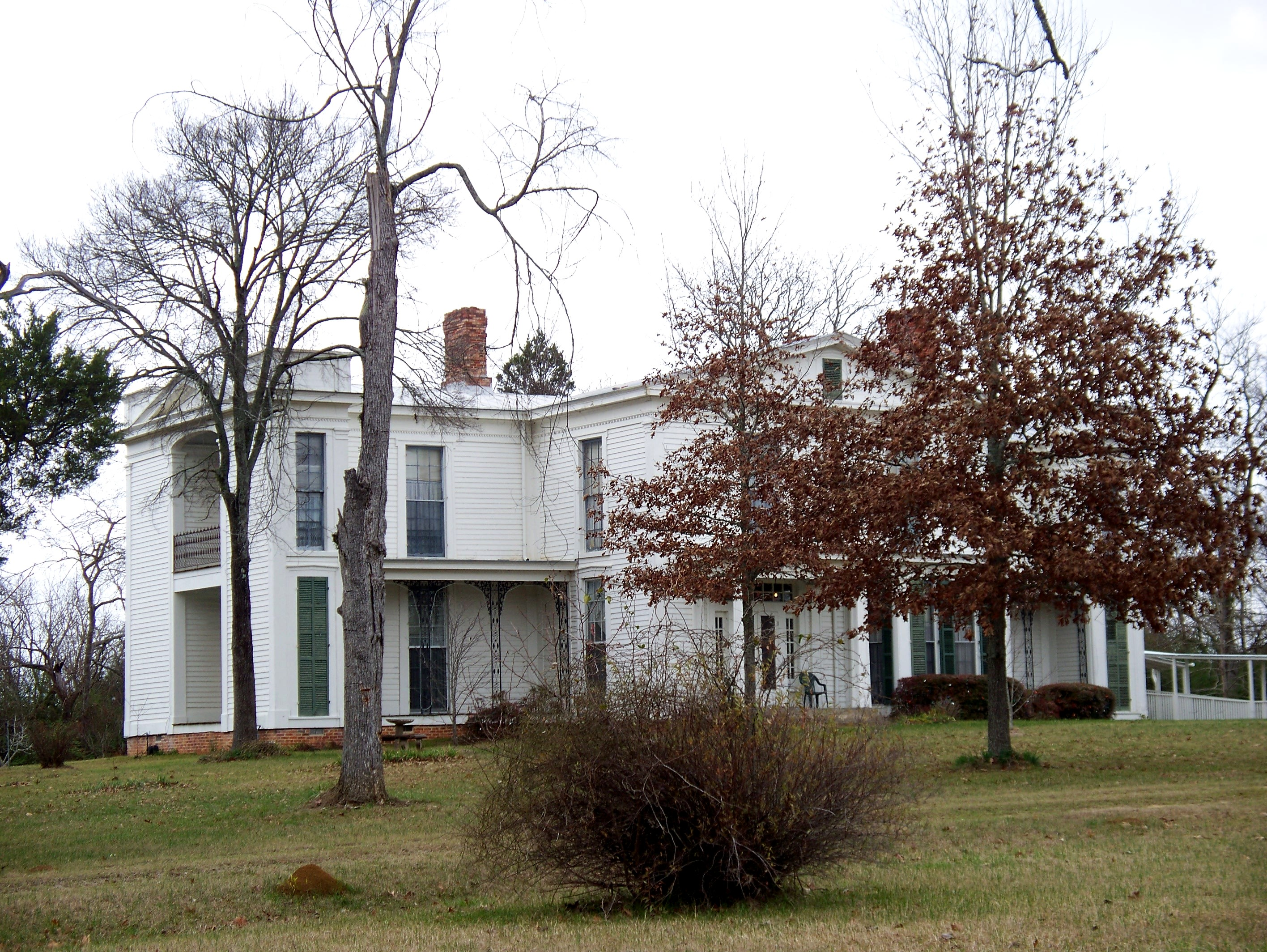 Westwood plantation house in 2008. It was begun in 1836 and completed in its current form in 1850. On the National Register of Historic Places.